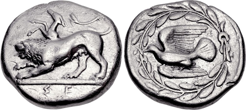 SIKYONIA, Sikyon. Circa 431-400 BC. AR Stater (24mm, 11.88 g, 12h). Chimaera standing left, raising forepaw; ΣE in exergue / Dove flying left; Σ above tail; all within wreath.